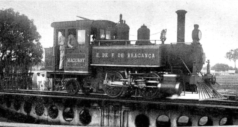 Locomotive Maguary, type 0-4-2T, photograph taken on the Marituba Roundhouse, Railway Bragança, Pará State